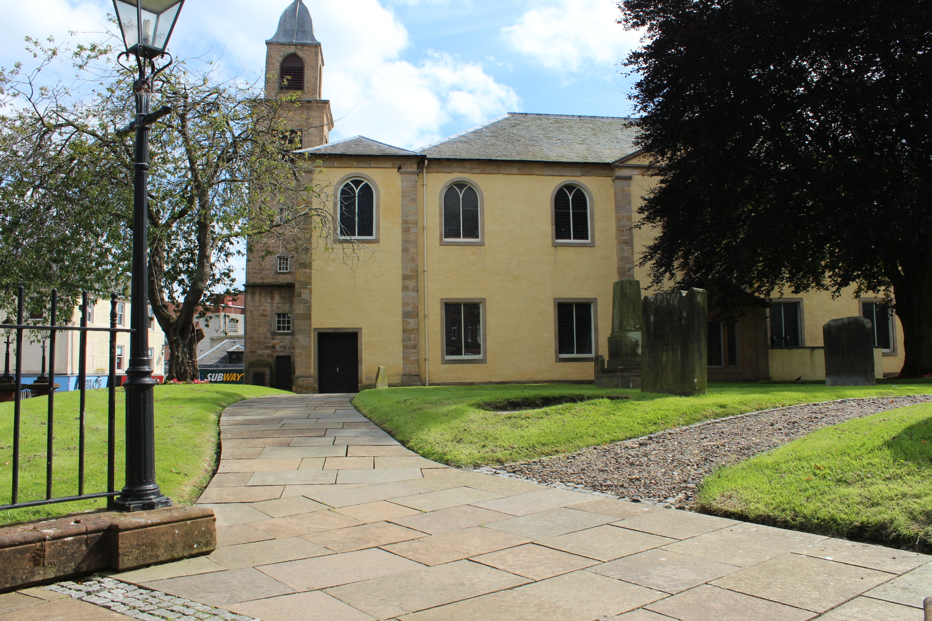 The Laigh Kirk, Kilmarnock